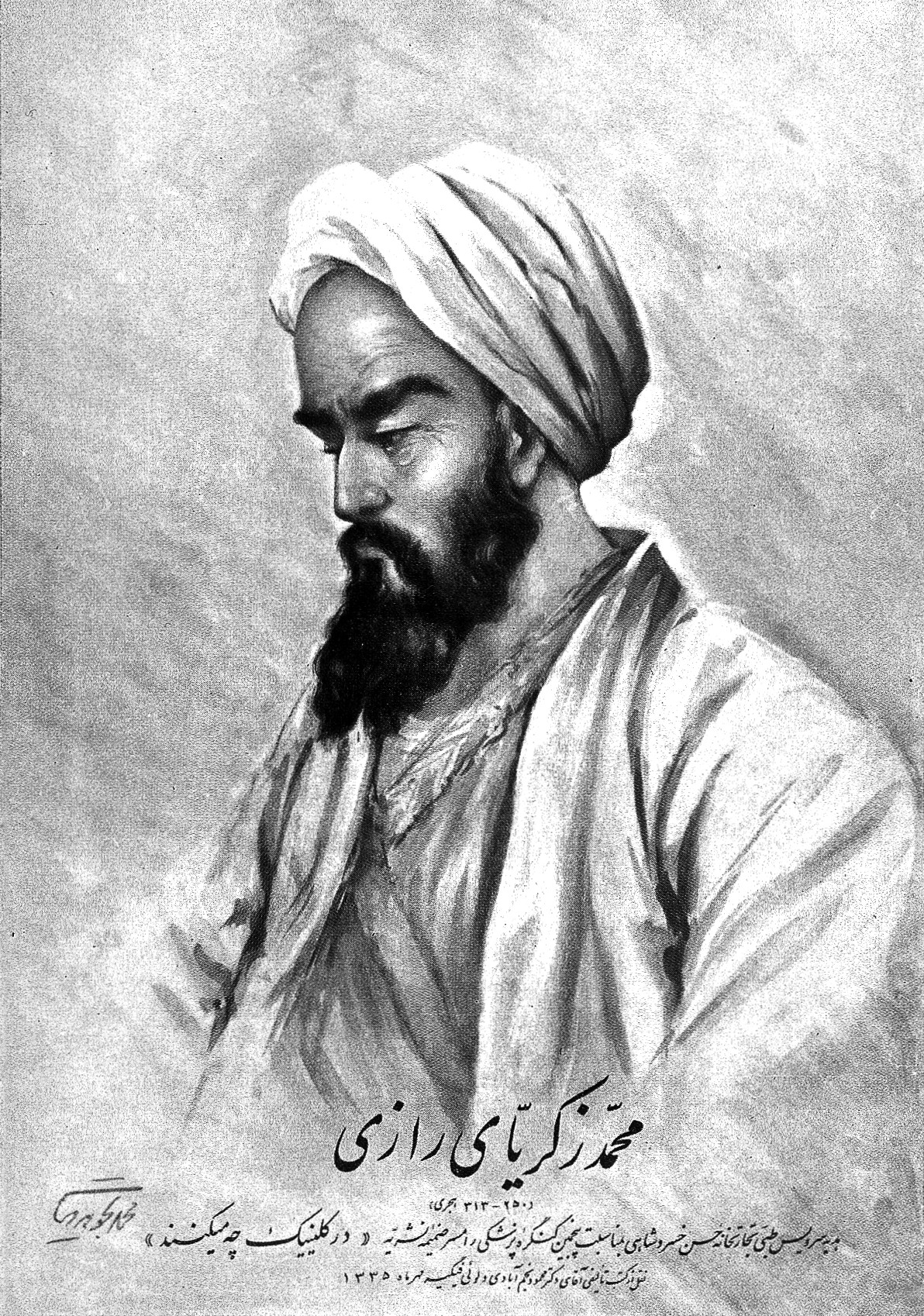 Portrait of Rhazes (al-Razi) (AD 865 - 925), physician and alchemist who lived in Baghdad Wellcome Images Keywords: Rhazes